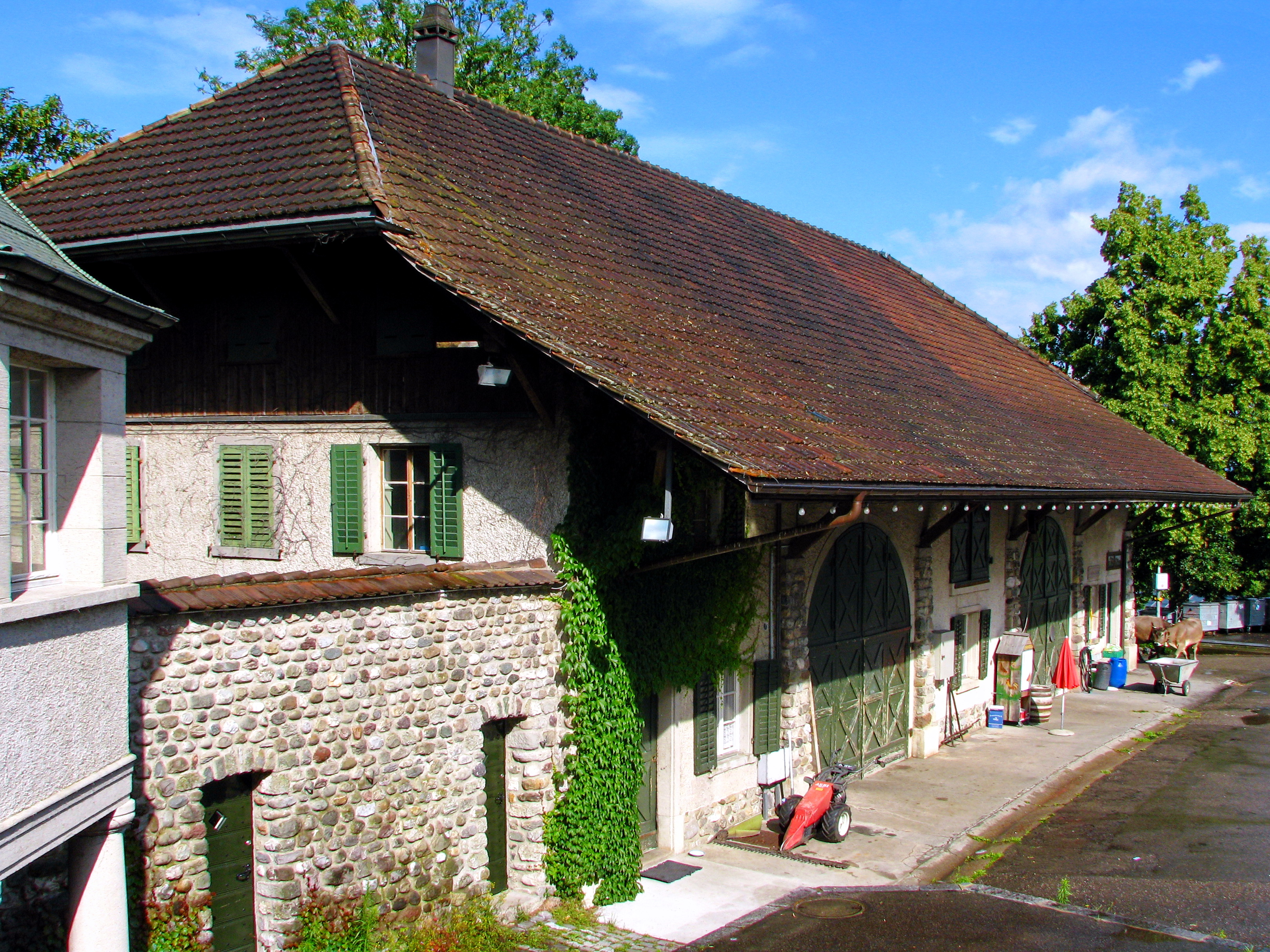 Uster castle in Uster : Remains of the defensive walls and building used as barn, as seen from the northwest.